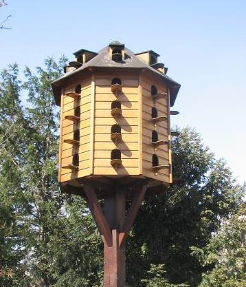 A birdhouse near the Fenn lake ("Fennsee") in Berlin